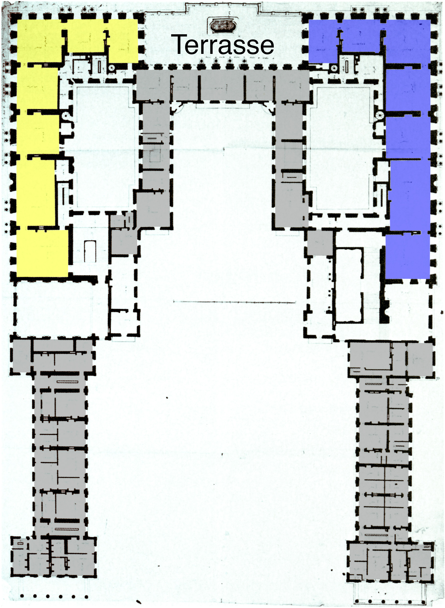 Plan of the main floor (premier étage) of the Palace of Versailles Enveloppe [with the King's grand apartment marked in blue, the Queen's in yellow, and the "Old Château" in gray] (110 x 80.5 cm, National Museum, Stockholm, Cronstedt Collection, CC 74)